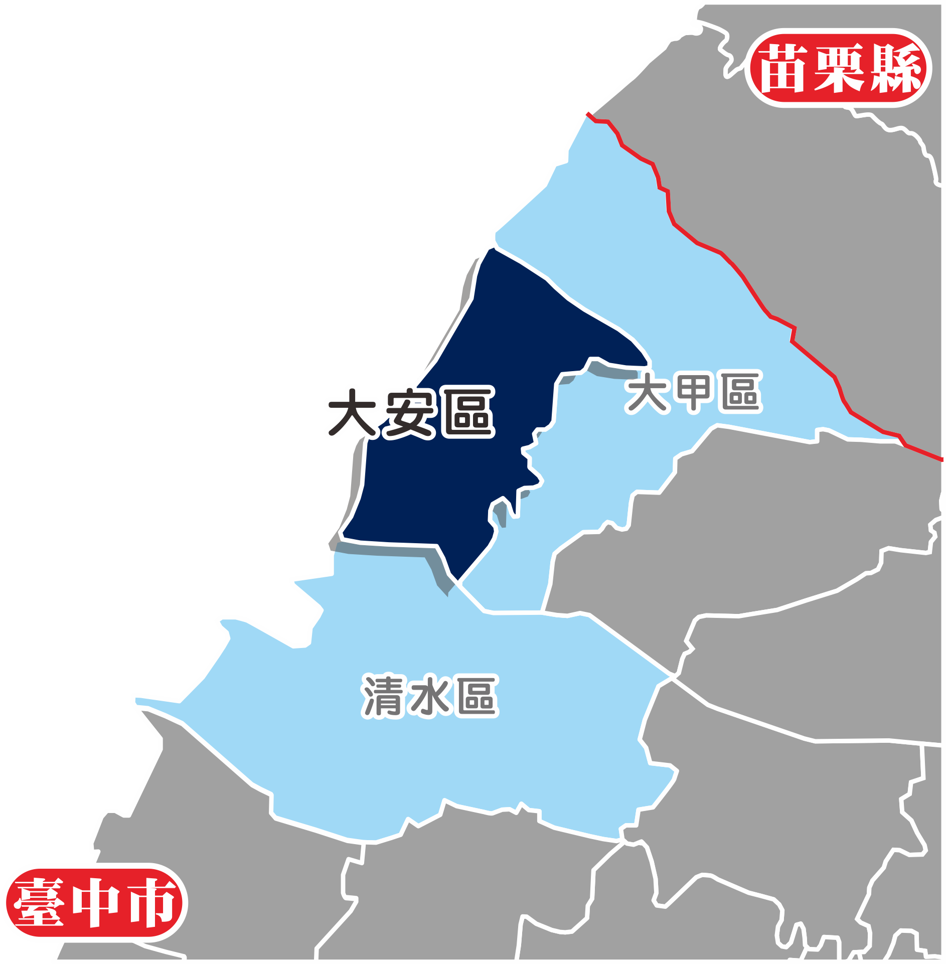 Da-an District